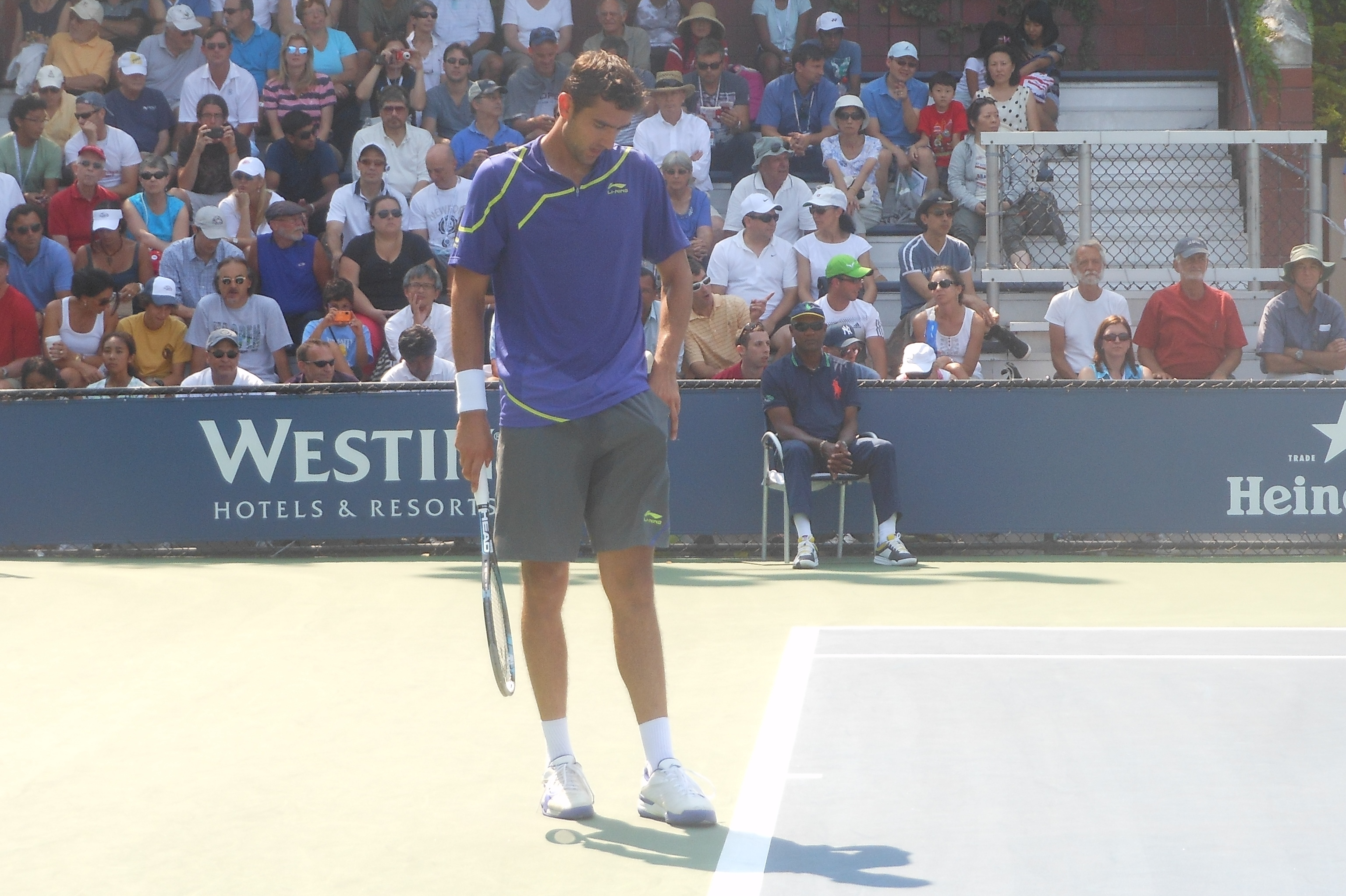 Marin Cilic 2013 US Open, Marin Čilić